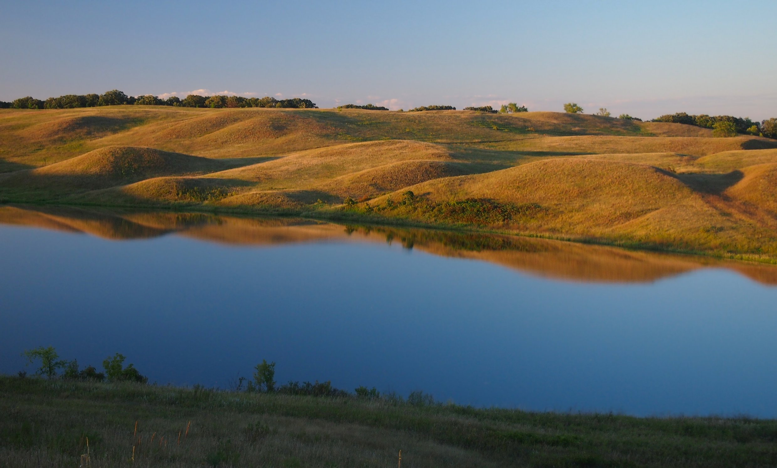 Kettle Lake at golden hour, Glacial Lakes State Park, Minnesota, USA.